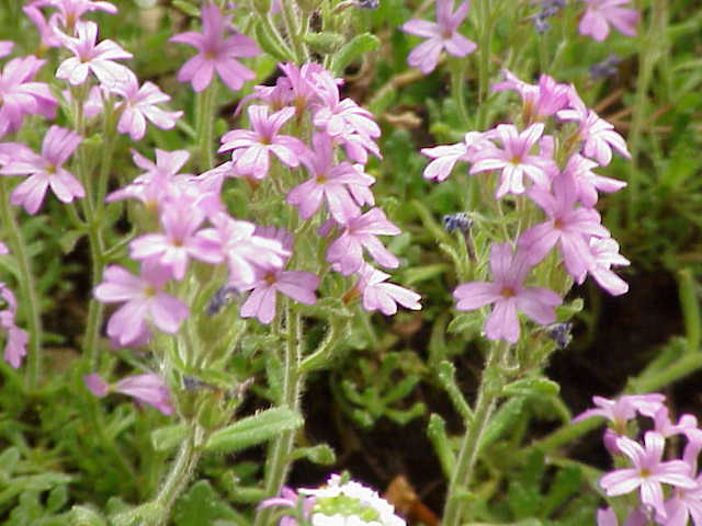 Species: Erinus alpinus Family: Orobanchaceae Image No. 1